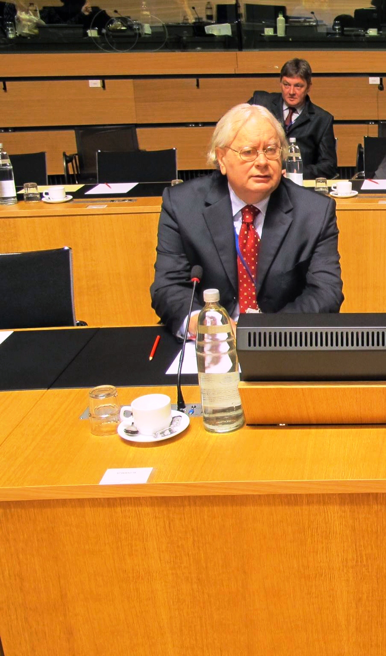 Matjaž Šinkovec (1951-), Slovene diplomat, journalist and politician